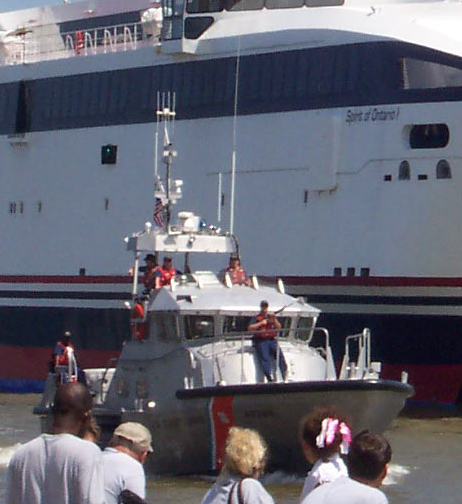 USCG 47-foot Motor Lifeboat escorting the Spirit of Ontario I Fast Ferry into Rochester, New York 2004-08-08 Cropped from this wikipedia PD image.